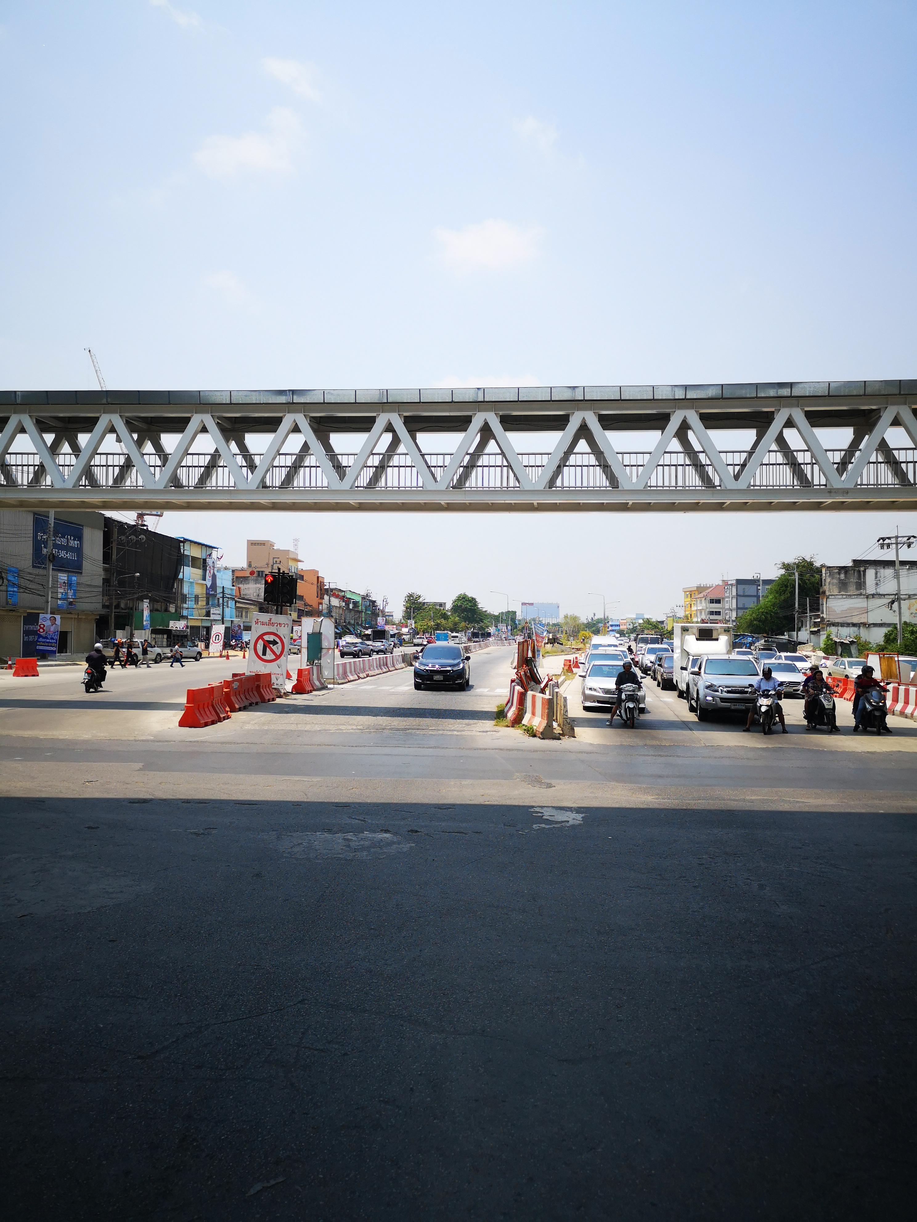 Phran Nok - Phuttamonthon 4 road